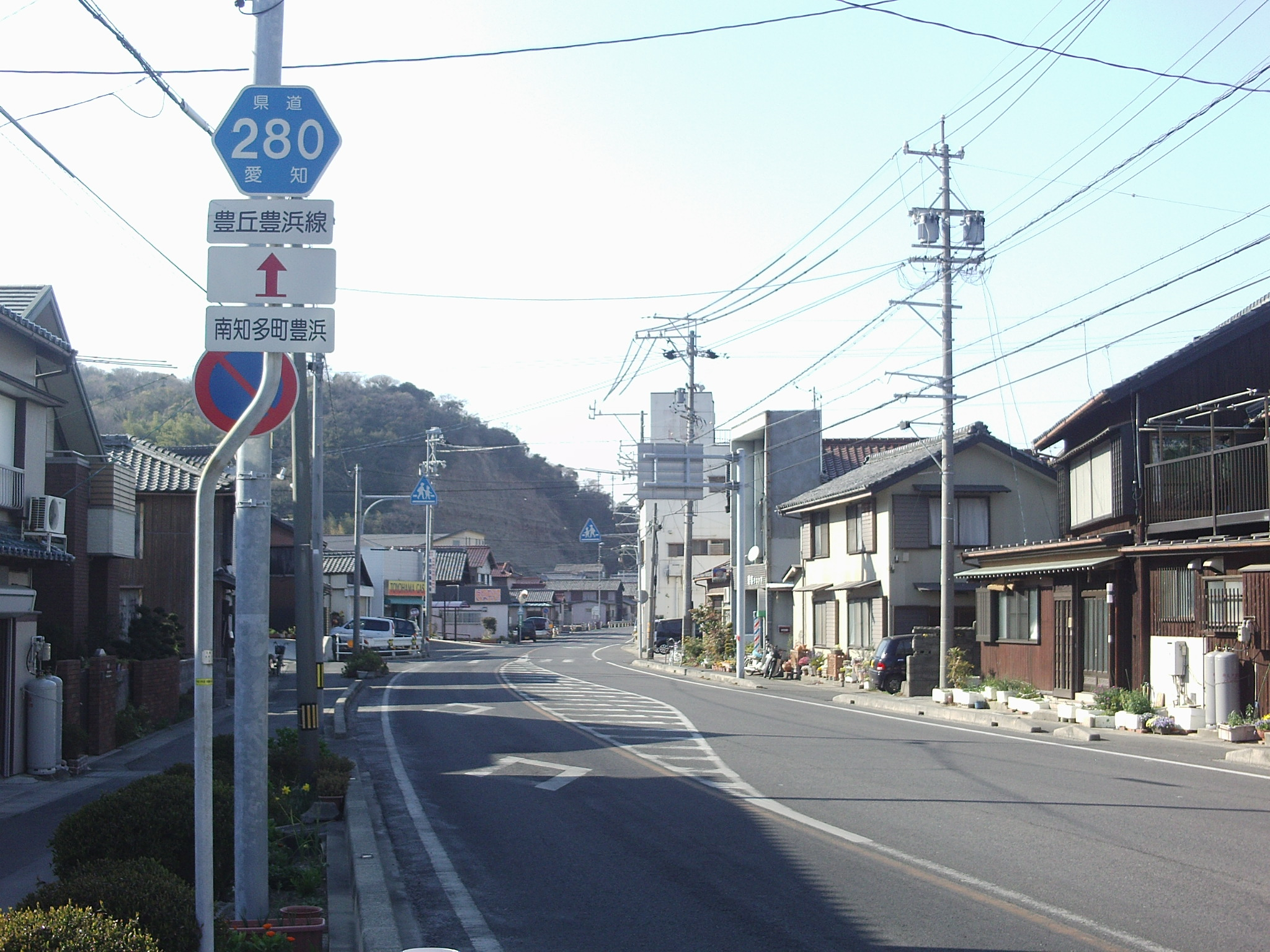 Ending Point of Aichi prefectural road No.280 in Toyohama, Minamichita-cho, Chita-gun, Aichi.